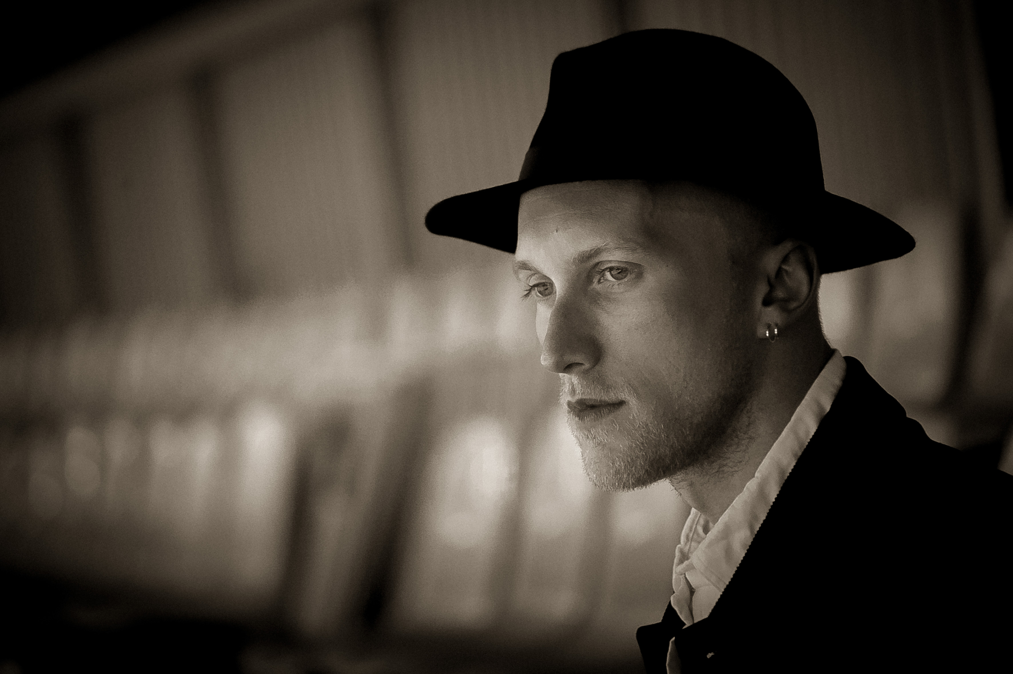 Benoit Richaud in action